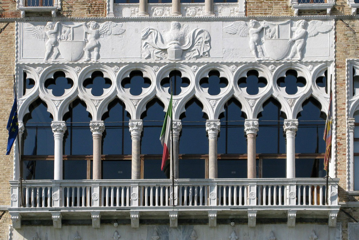 Ca' foscari: gothic window on the second floor